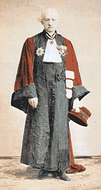 Gustave Emile Boissonade de Fontarabie